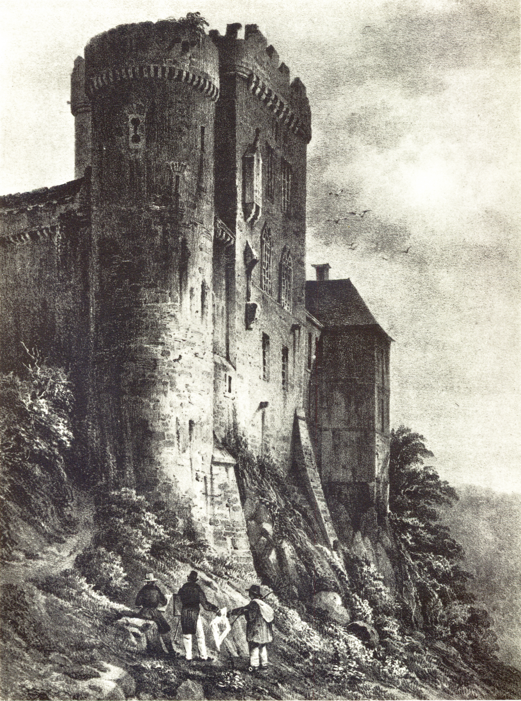 Castle of Hollenfels, Luxembourg. Drawing.